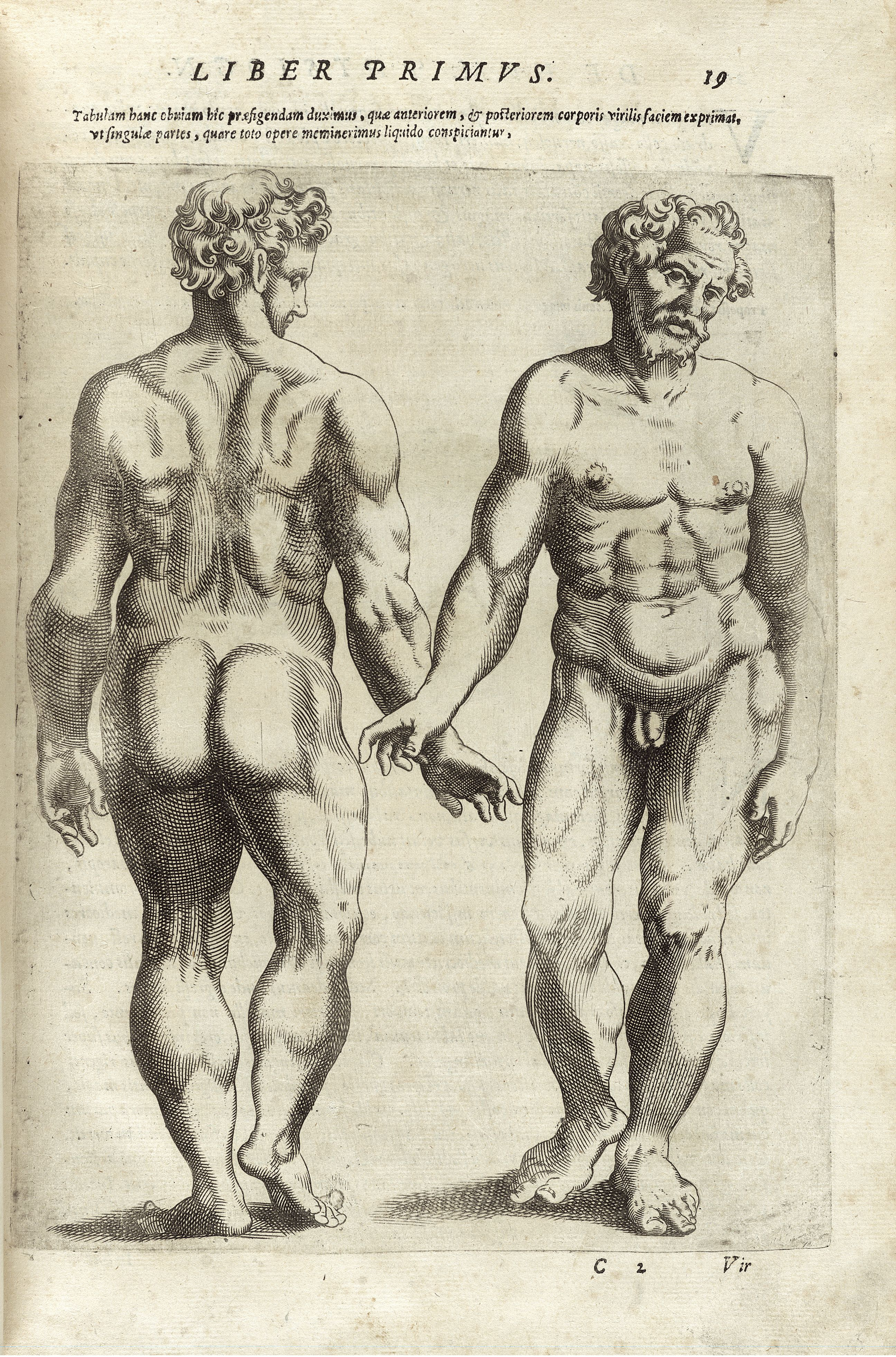 De humana physiognomonia libri IIII (1586) by Giambattista della Porta, page 19.